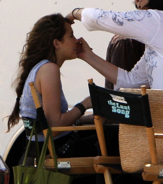 Miley Cyrus in make-up on the set of "The Last Song" at Tybee Beach, Savannah